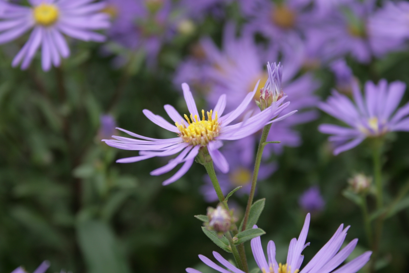 Aster amellus: Flower (Photo from the Botanical Garden of Aarhus, Denmark)